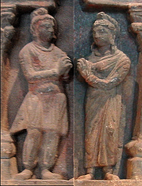 Kushan devotee couple. 2nd century CE. From a frieze in the Guimet Museum. Personal photograph 2005. Cropping from this image.